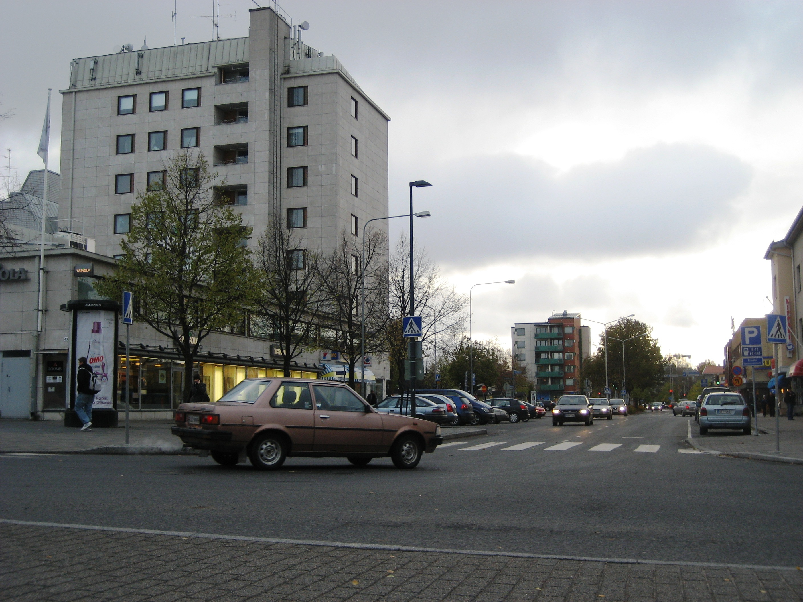 Oksasenkatu street in Lappeenranta, Finland